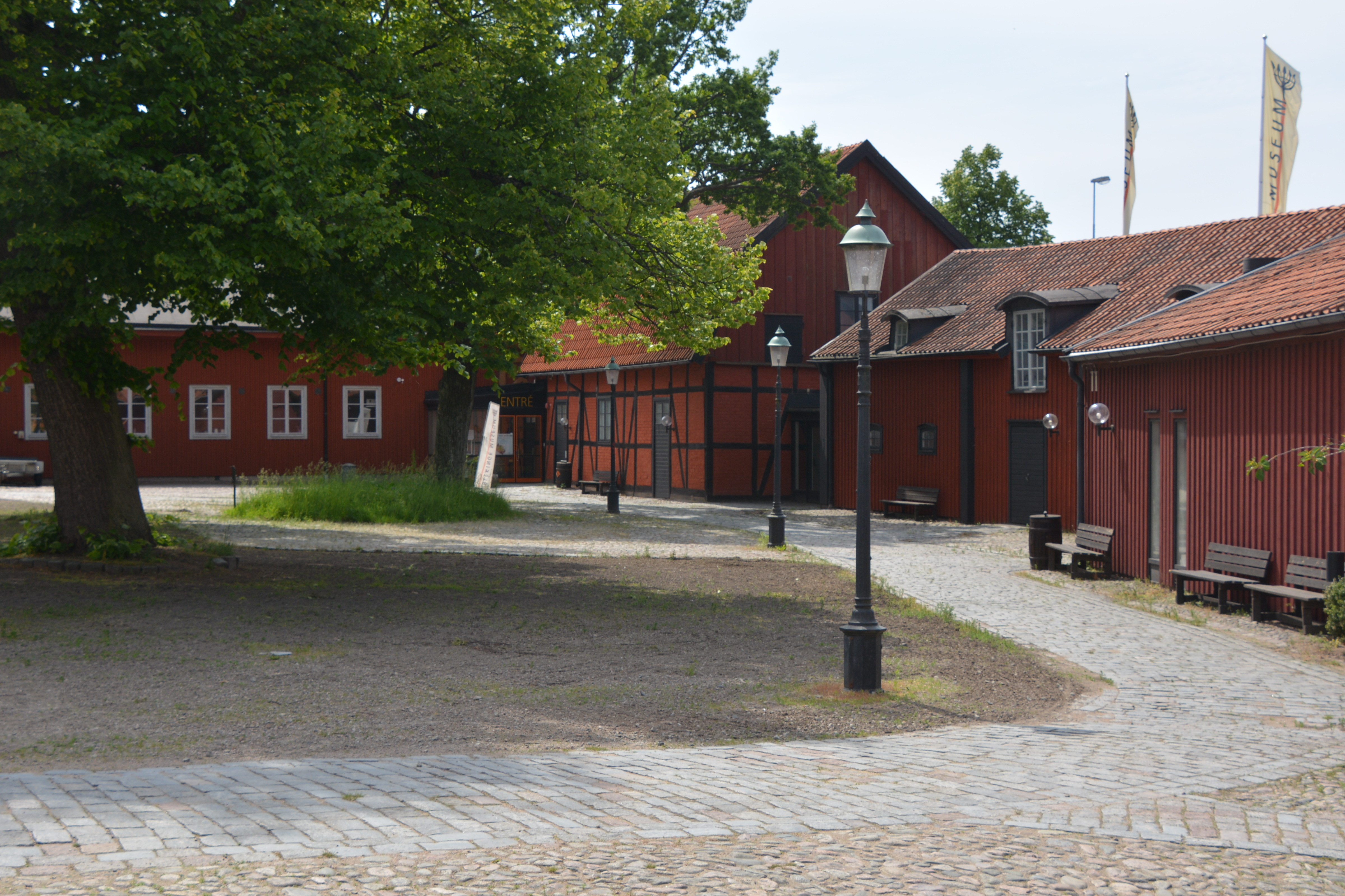 Gården till Blekinge läns museum